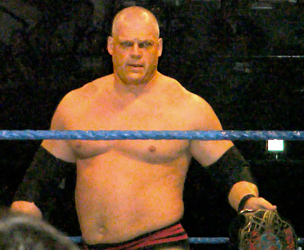 Kane @ Adelaide, South Australia 'Smackdown/ECW' house show on the 14th of June '08